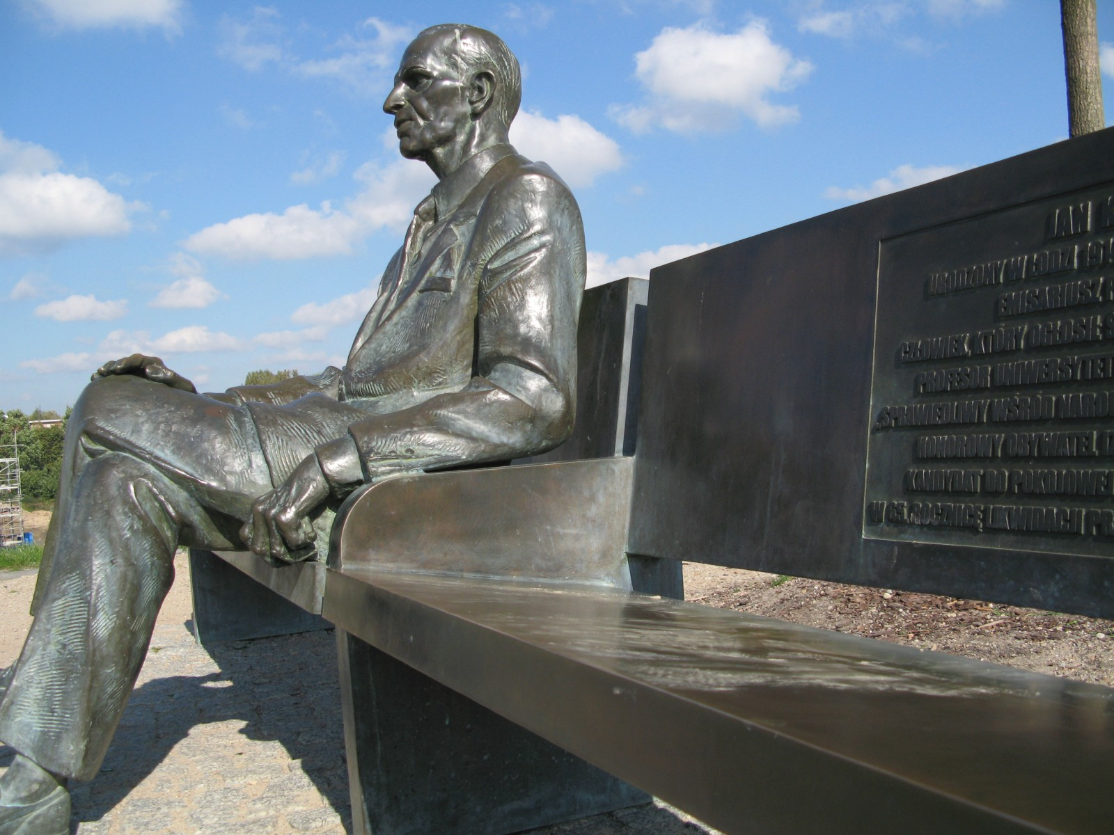 Jan Karski Bench in Survivors' Park, Łódź